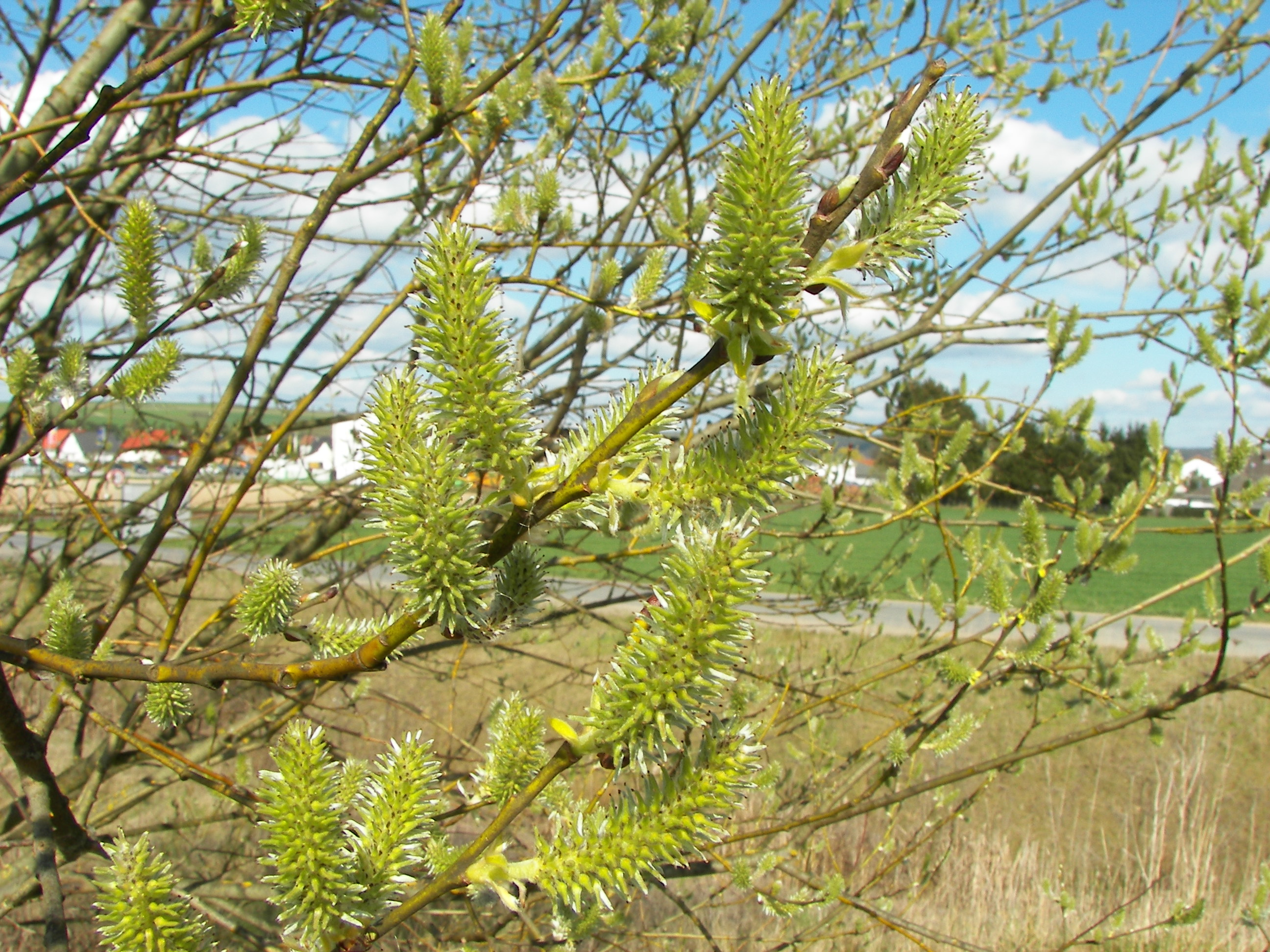 Goat Willow (Salix caprea), female catkins, Location: Lahntal-Goßfelden, Hesse, Germany